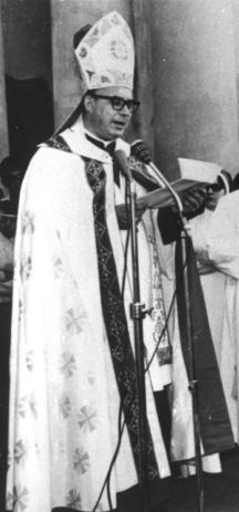 Argentine bishop Enrique Angelelli (1923–1976), killed by the military during the last dictatorship.